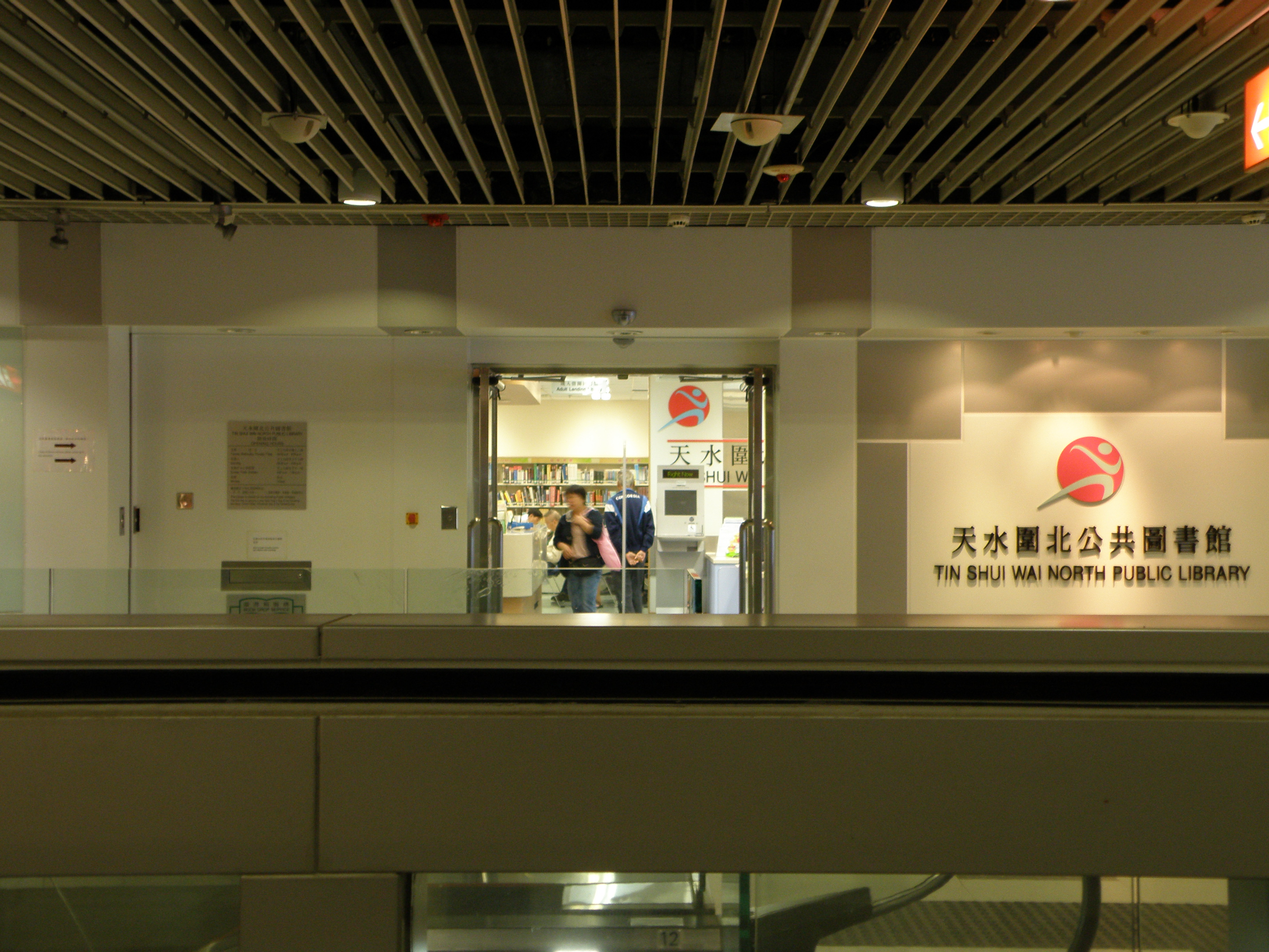 Tin Shui Wai North Public Library in Tin Shui Wai, Hong Kong.